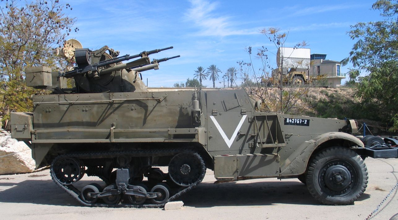 Description: M3 TCM-20 halftrack at Muzeyon Heyl ha-Avir, Hatzerim, Israel. 2006. Source: Photo by me, User:Bukvoed.